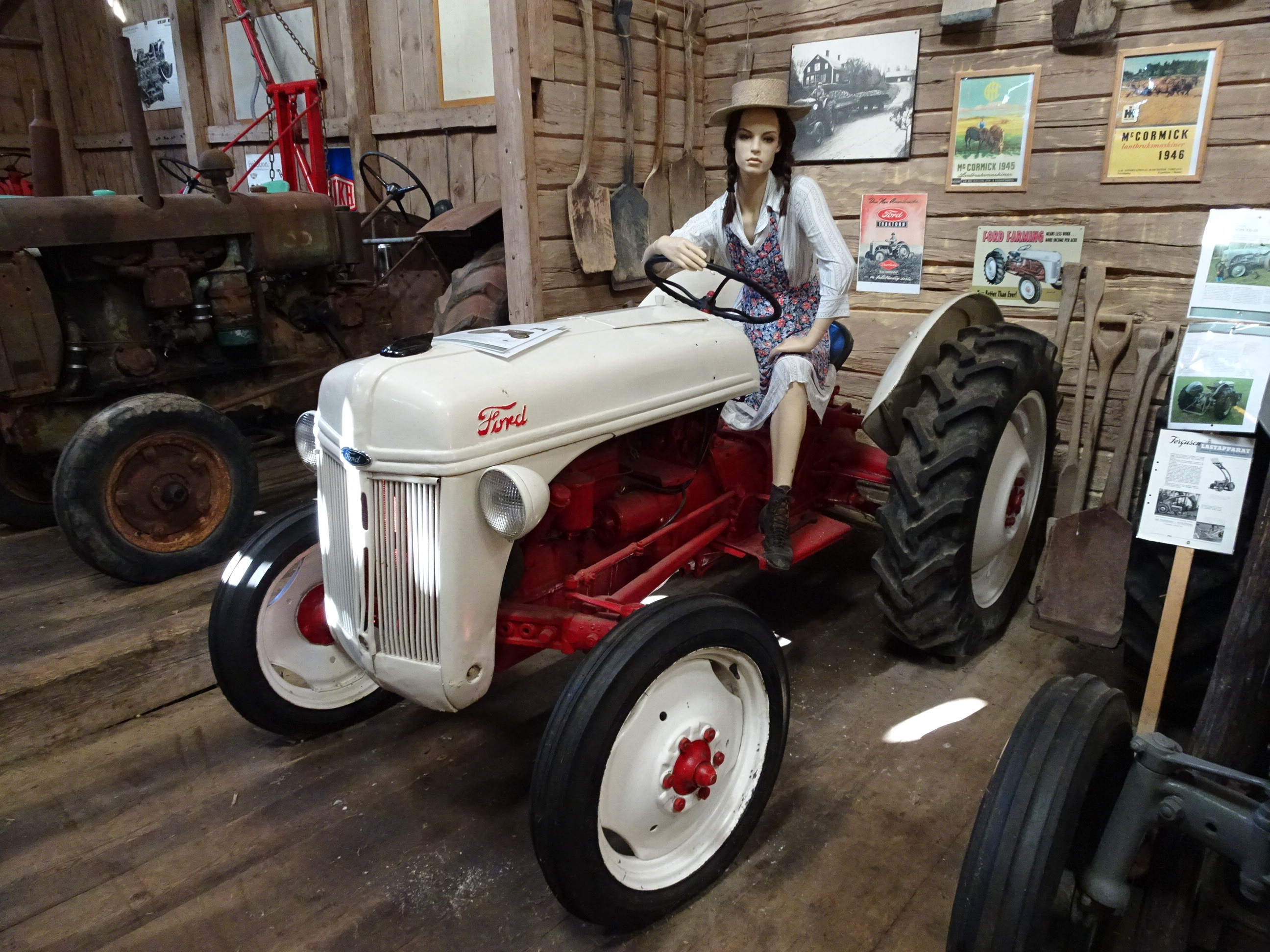 A collection of older tractors of which most are restored and can be driven. Nässelbo Tractor and nostalgia museum. Nässelbo, Möklinta, Sala, Västmanland Sweden.